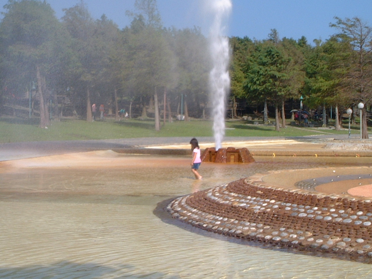 Dongshan River Water Park, established in 1993, is a park located in Wujie, Yilan County, Taiwan, on the shores of the Dongshan River (Author: User:StockMaster)